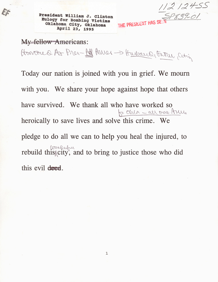 The United States President Bill Clinton's address to the victims of the Oklahoma City Bombing terrorist attack on April 23, 1995.